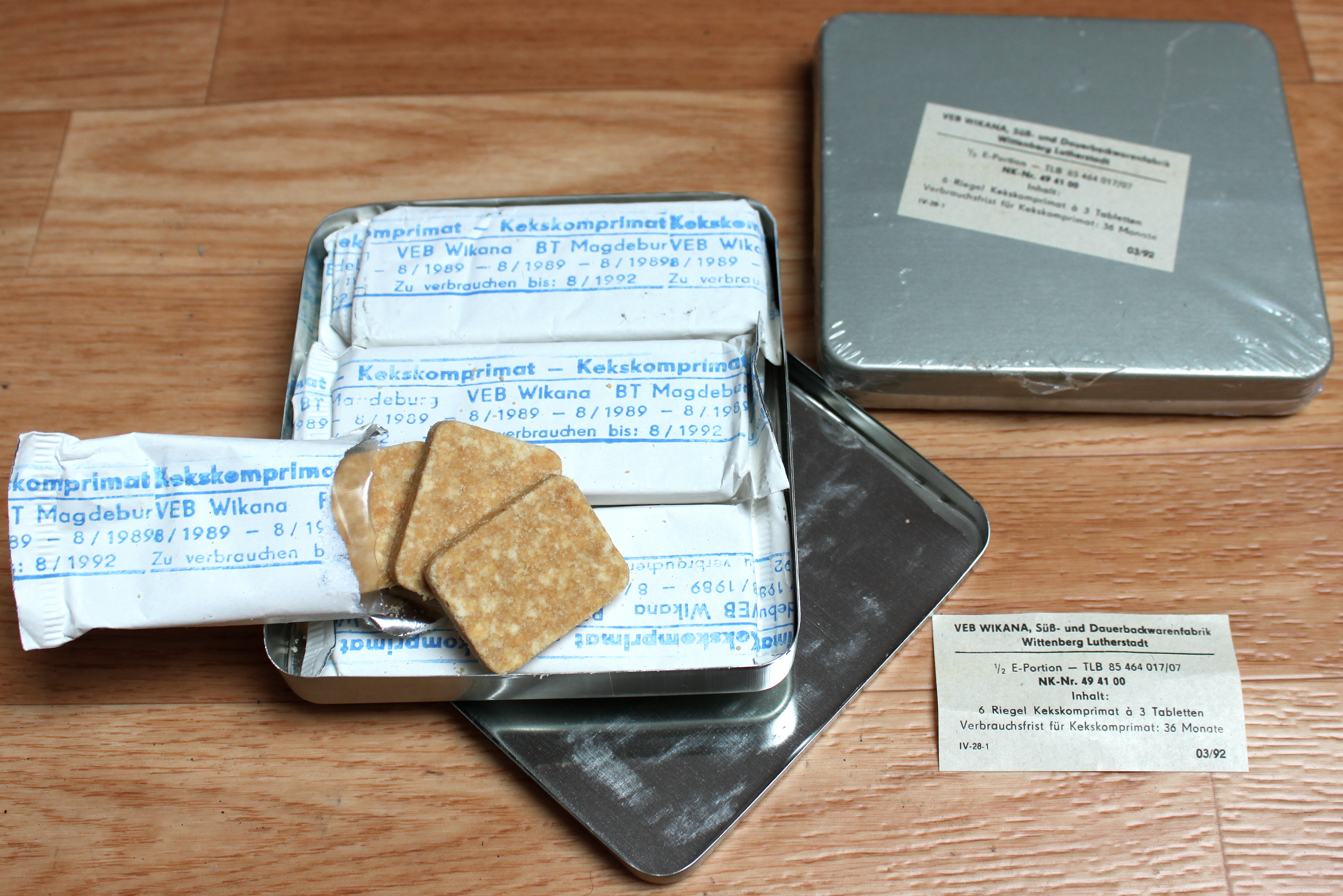 Combat ration of the NVA, mady by Wikana